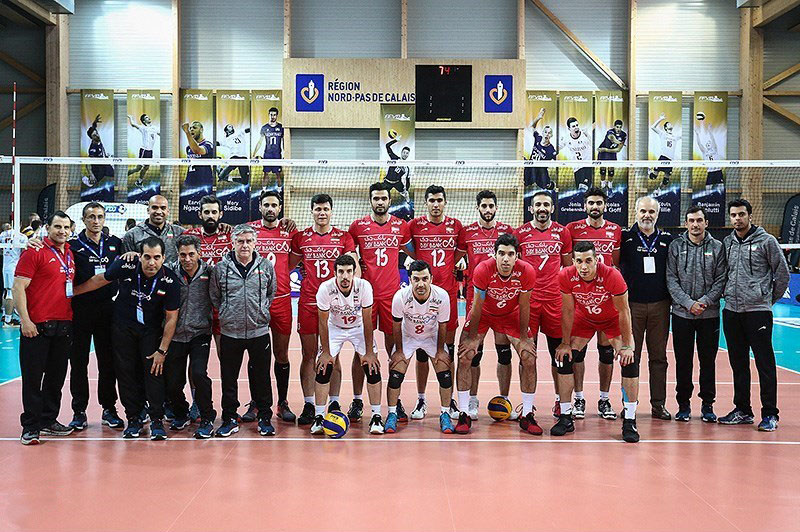 Iran men's national volleyball team second friendly game against France men's national volleyball team in Paris.